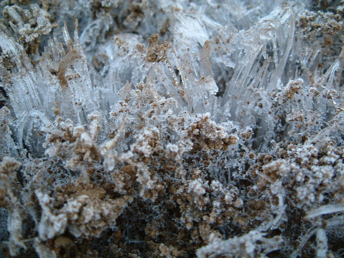 shimo bashira (霜柱), ice needles.